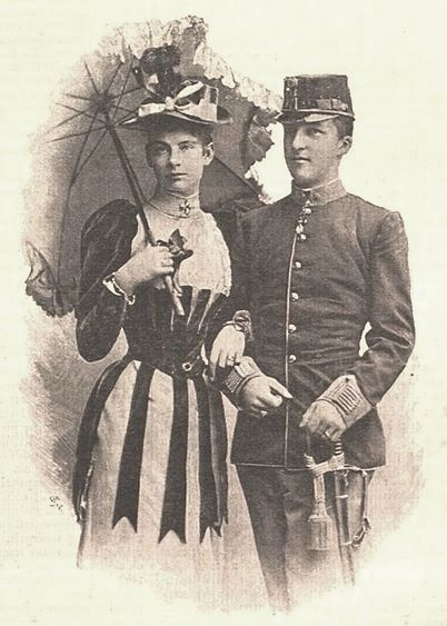 Archduke Joseph August of Austria and his wife Princess Auguste of Bavaria (1875–1964)